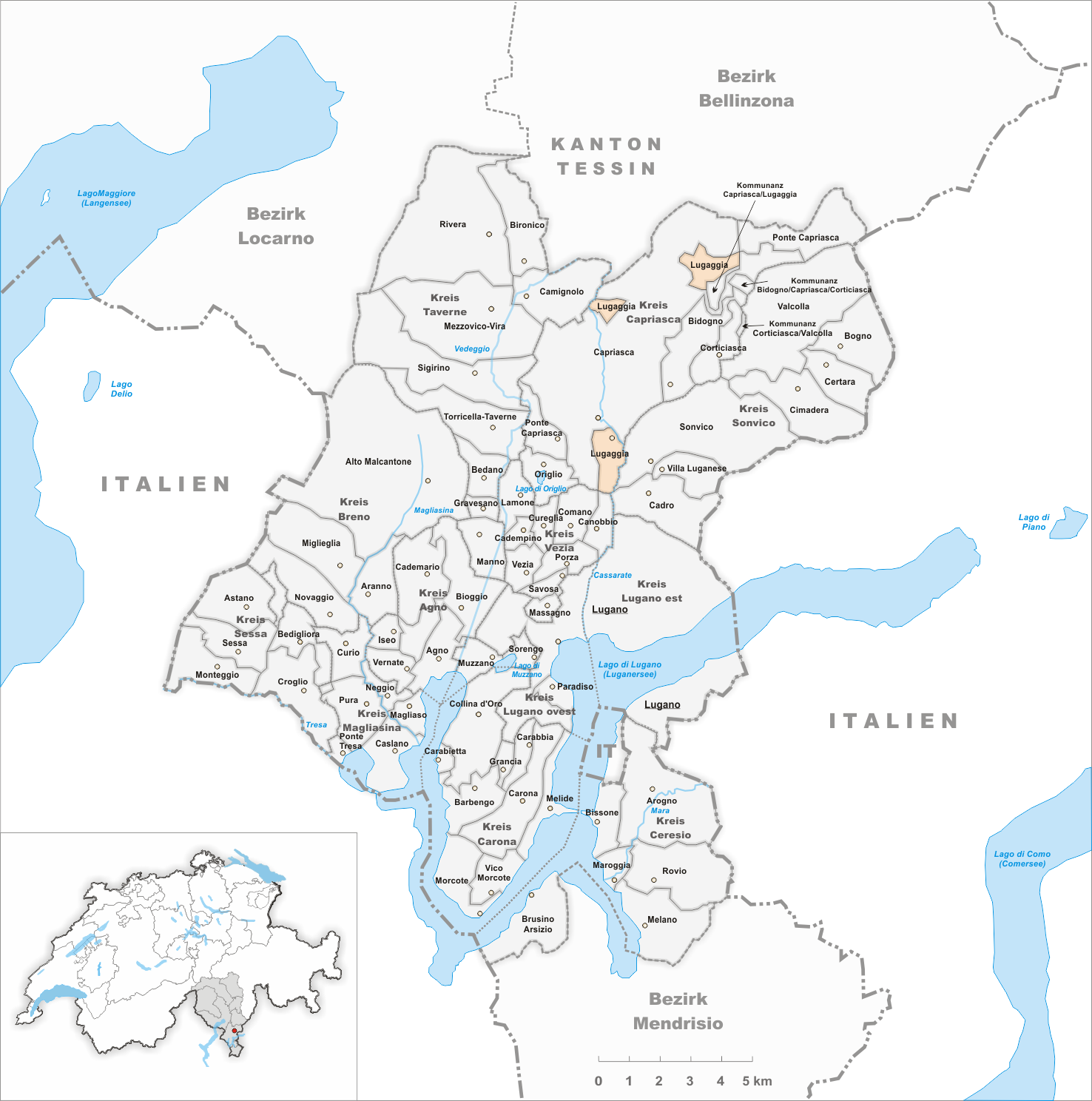 Municipality Lugaggia